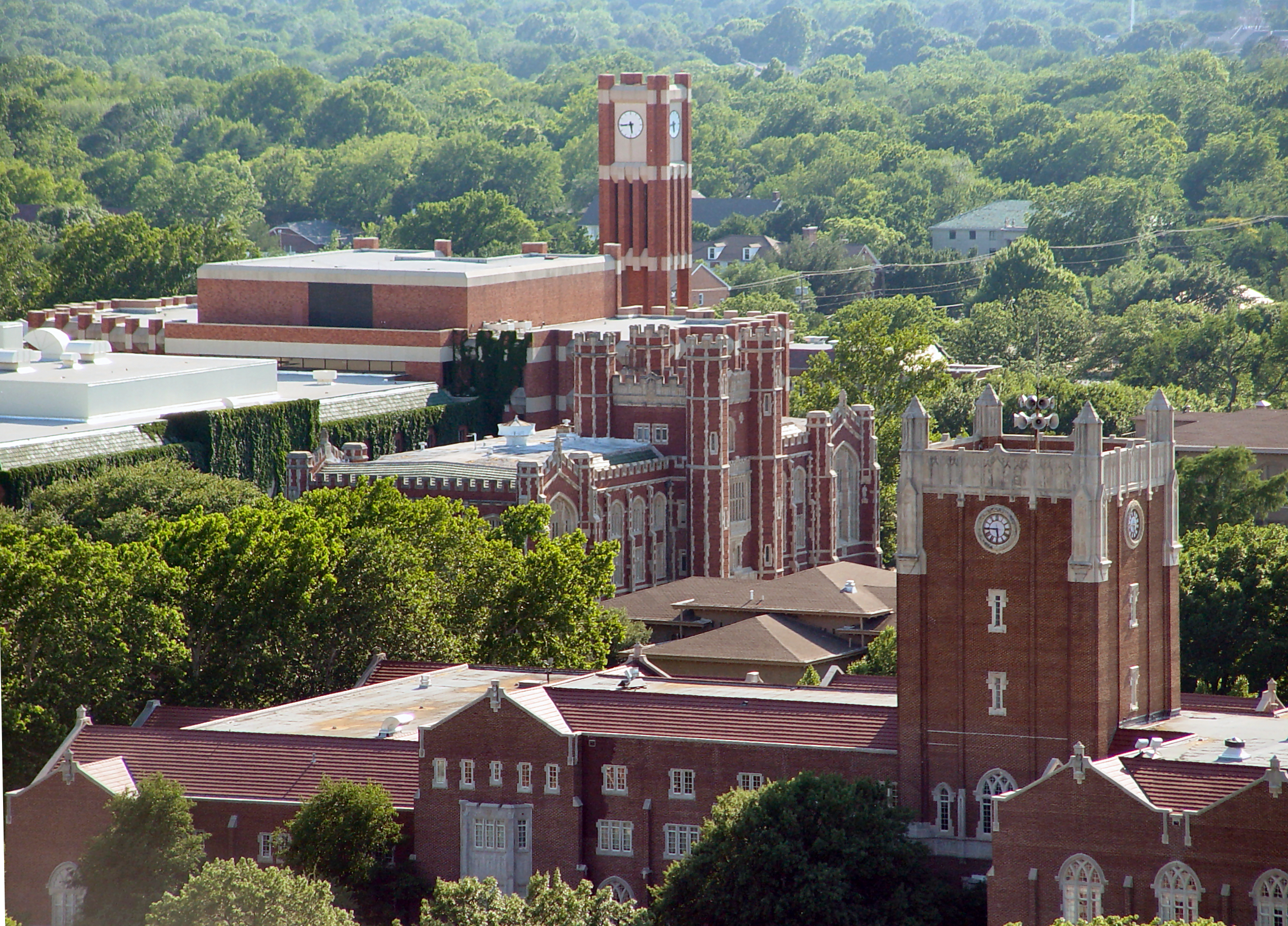 University of Oklahoma's Student Union, Evans Hall, and Bizzell Memorial Library, seen from the roof of Sarkeys Energy Center